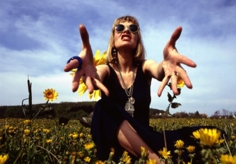 Rachel Morrison, Bliss